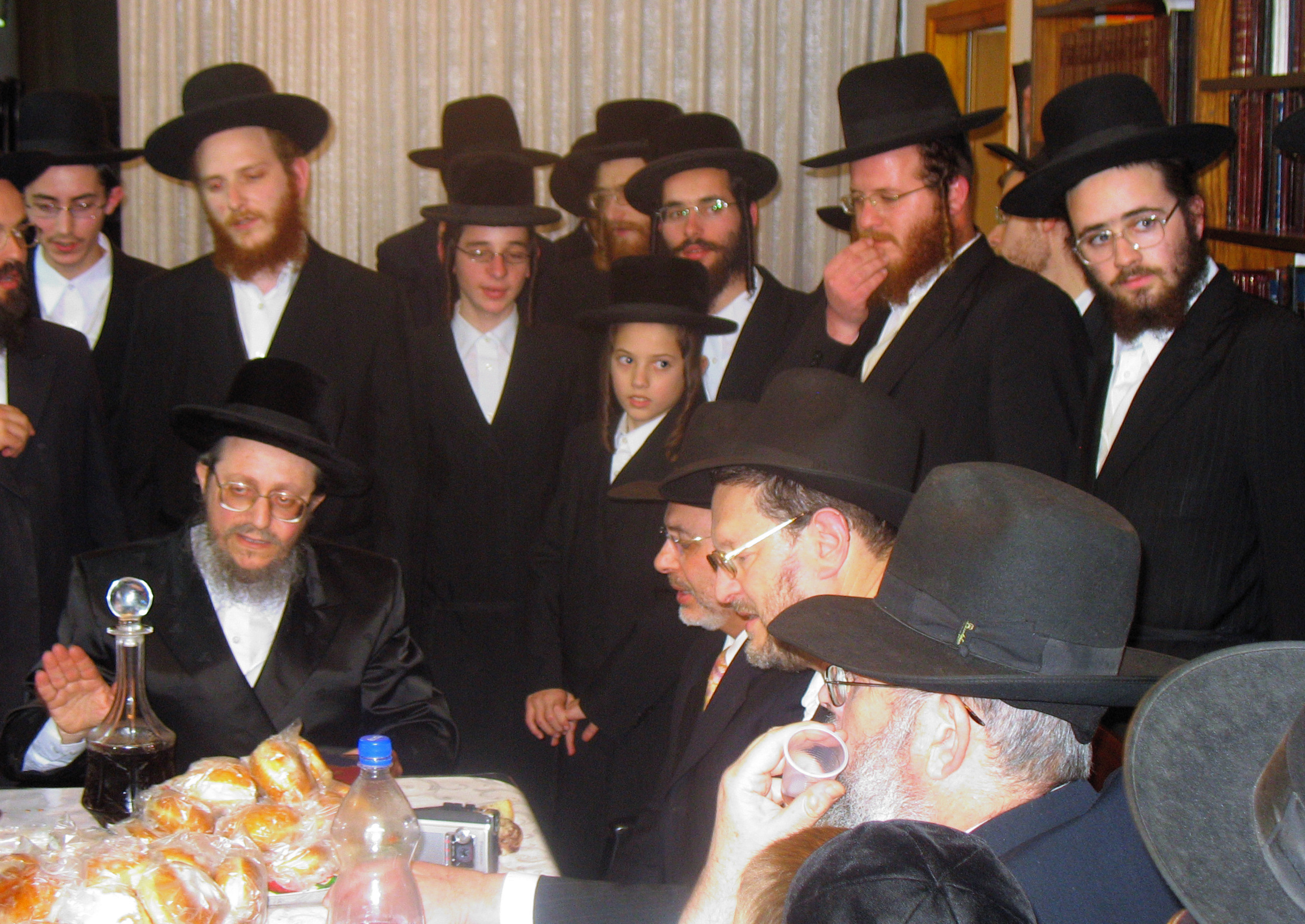 Radziner Rebbe R' shloimeh Englard at chanuke tisch